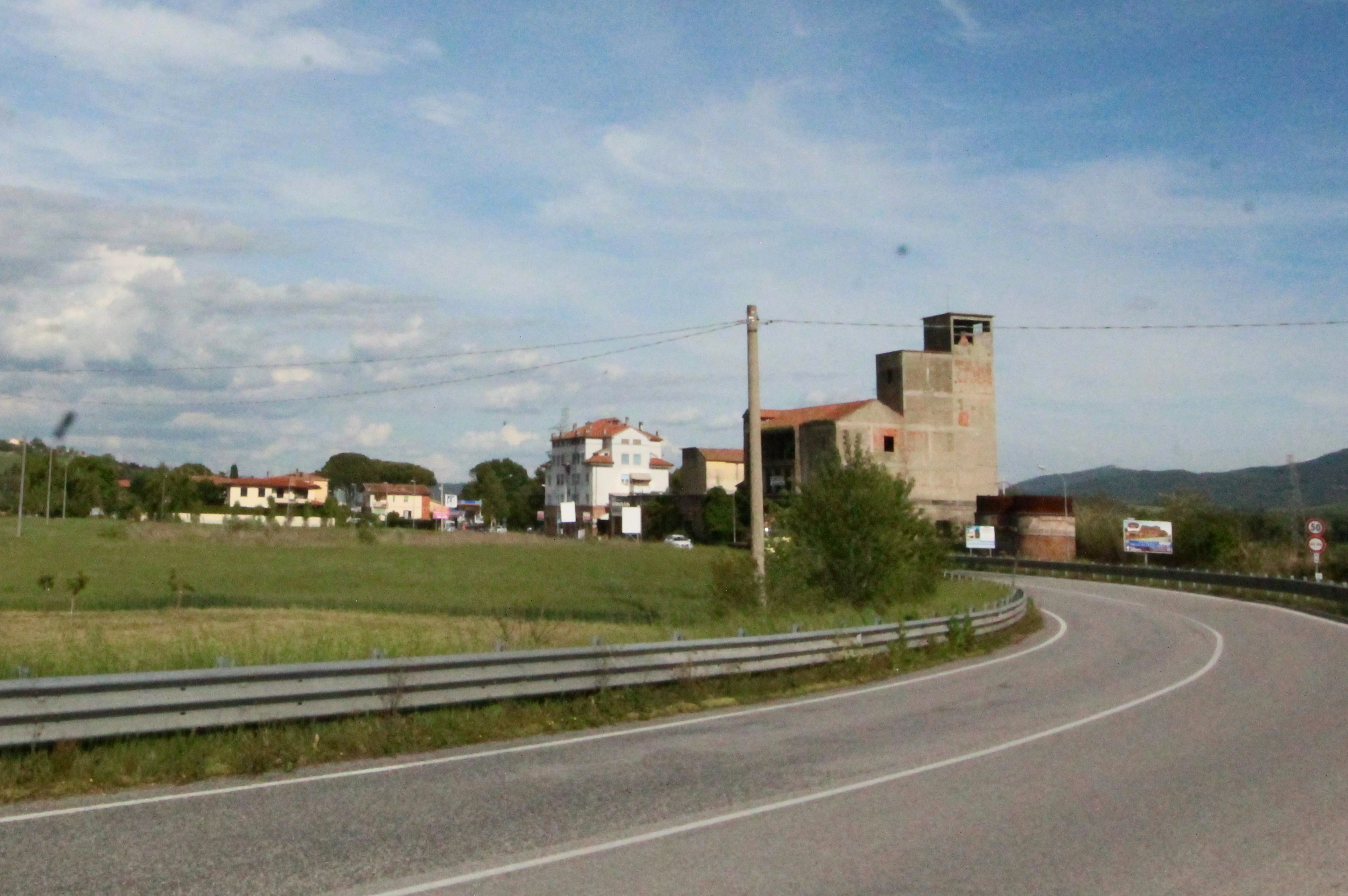 Casino di Terra, hamlet of Guardistallo and Montecatini Val di Cecina, Province of Pisa, Tuscany, Italy